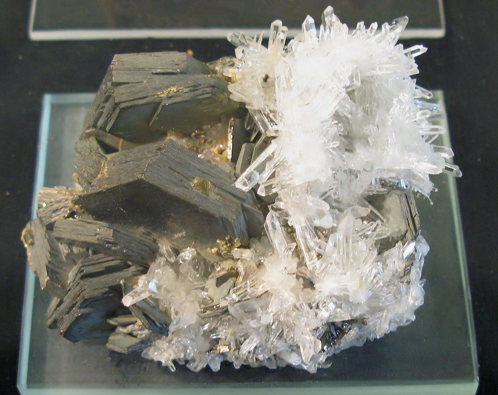 Pyrrhotin (Magnetkies) - Fundort: Trepča, Jugoslawien - Ausgestellt im Mineralogischen Museum Bonn